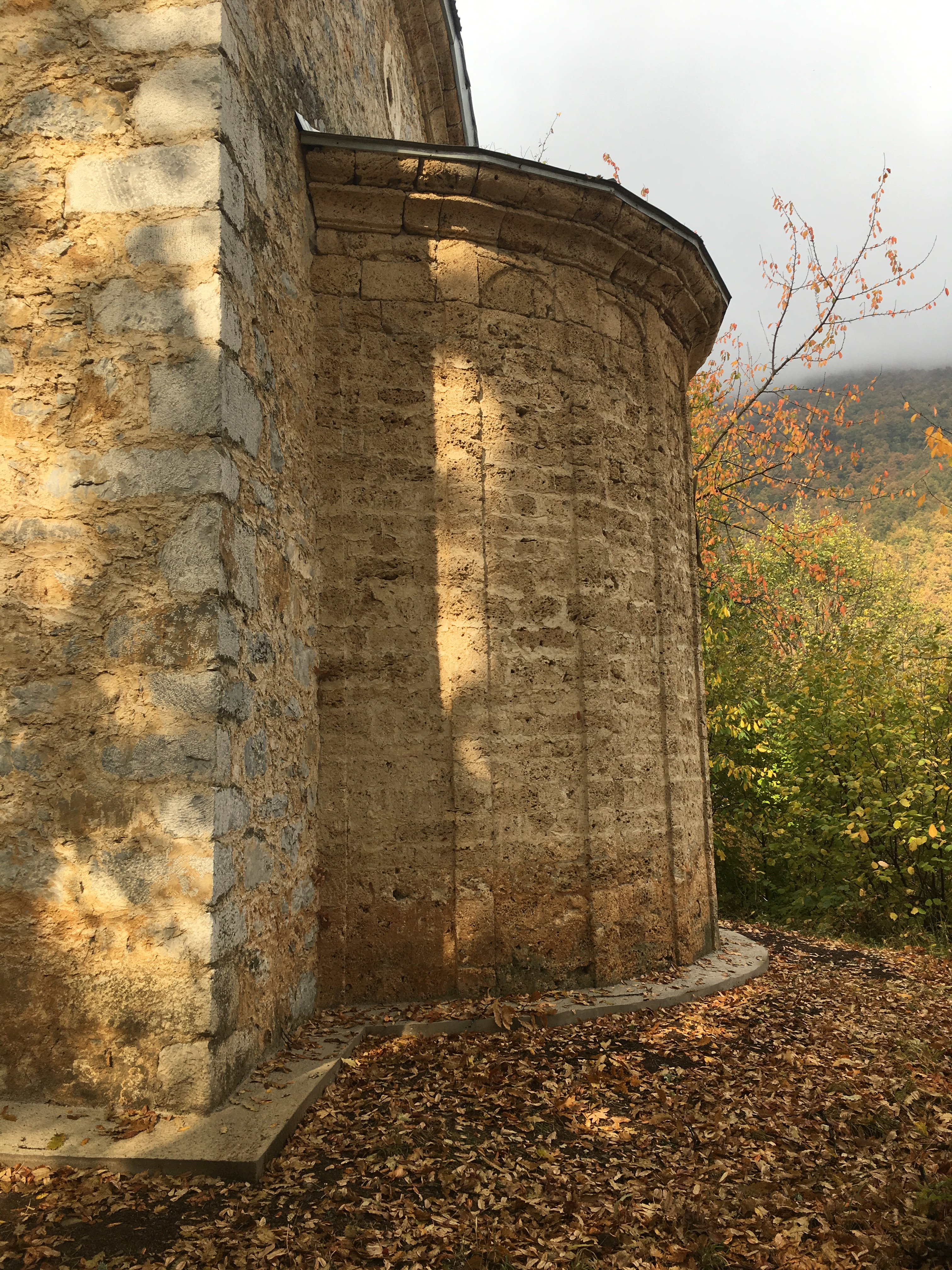 Wikiexpedition to Kopačka